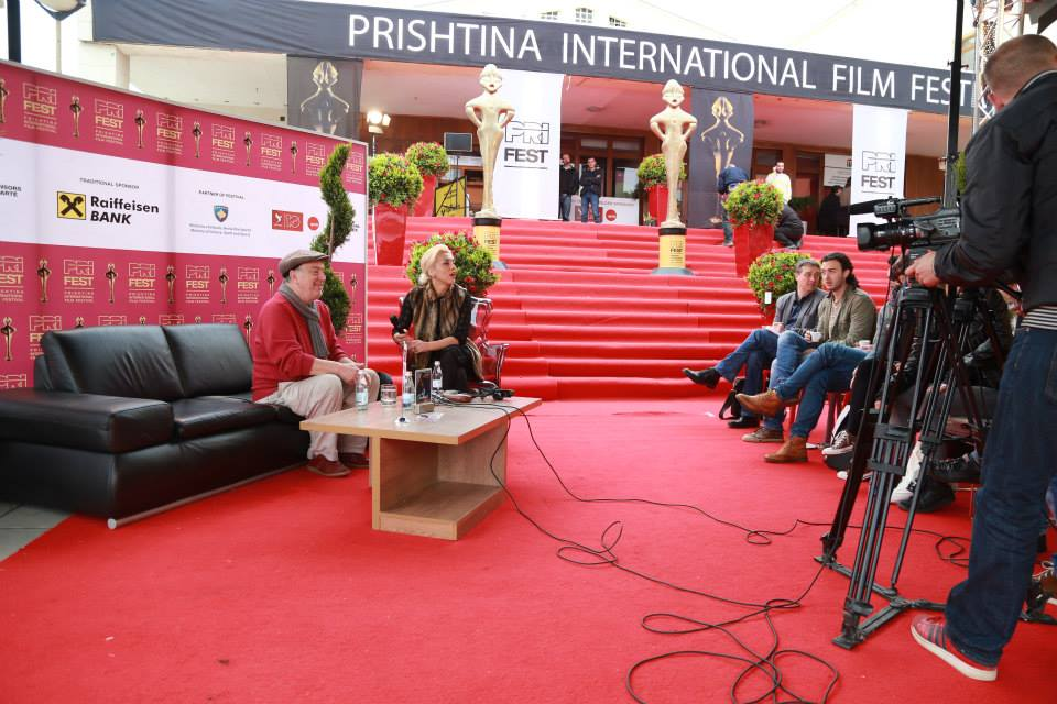 Stephen Frears at an open press conference, at PriFest, 2014